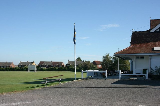 Trowbridge Cricket Club The Trowbridge cricket ground is conveniently situated near Trowbridge Hospital, though the entrance is in Lower Court at the north end of Timbrell Street